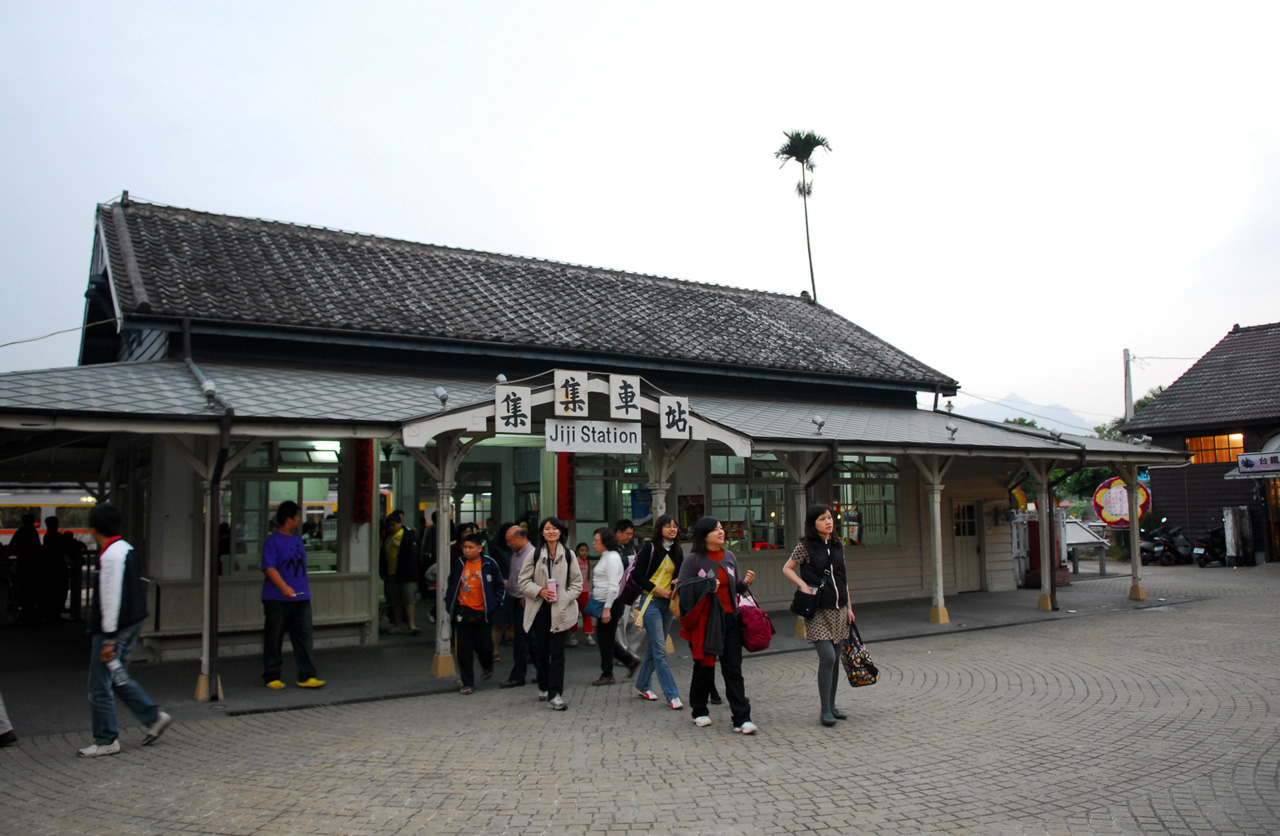 JiJi Station is a train station of Jiji Line, a branch rail line of Taiwan Railway Administration. It is located within the boundary of JiJi Town, NanTou County.